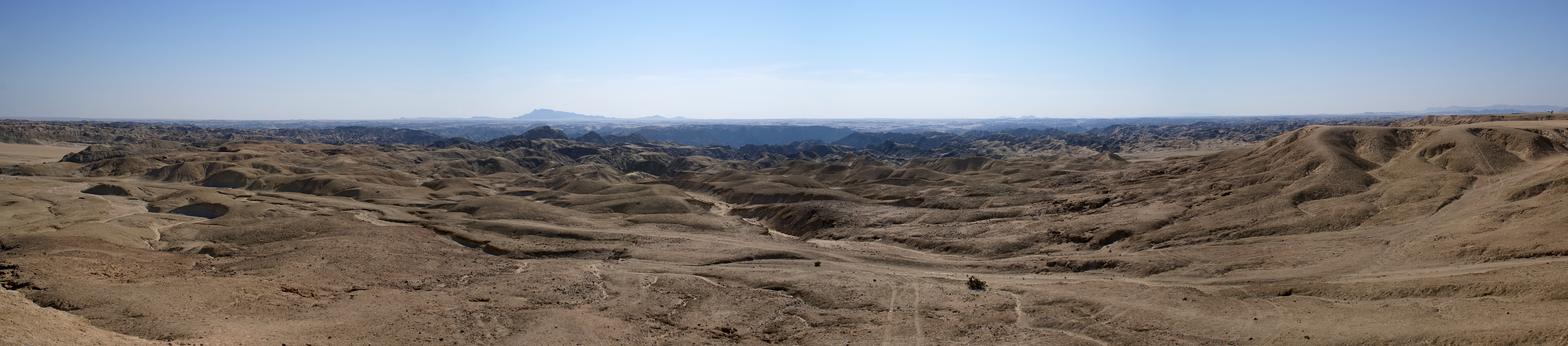 Moonlandscape, Namibia.View in interactive viewer